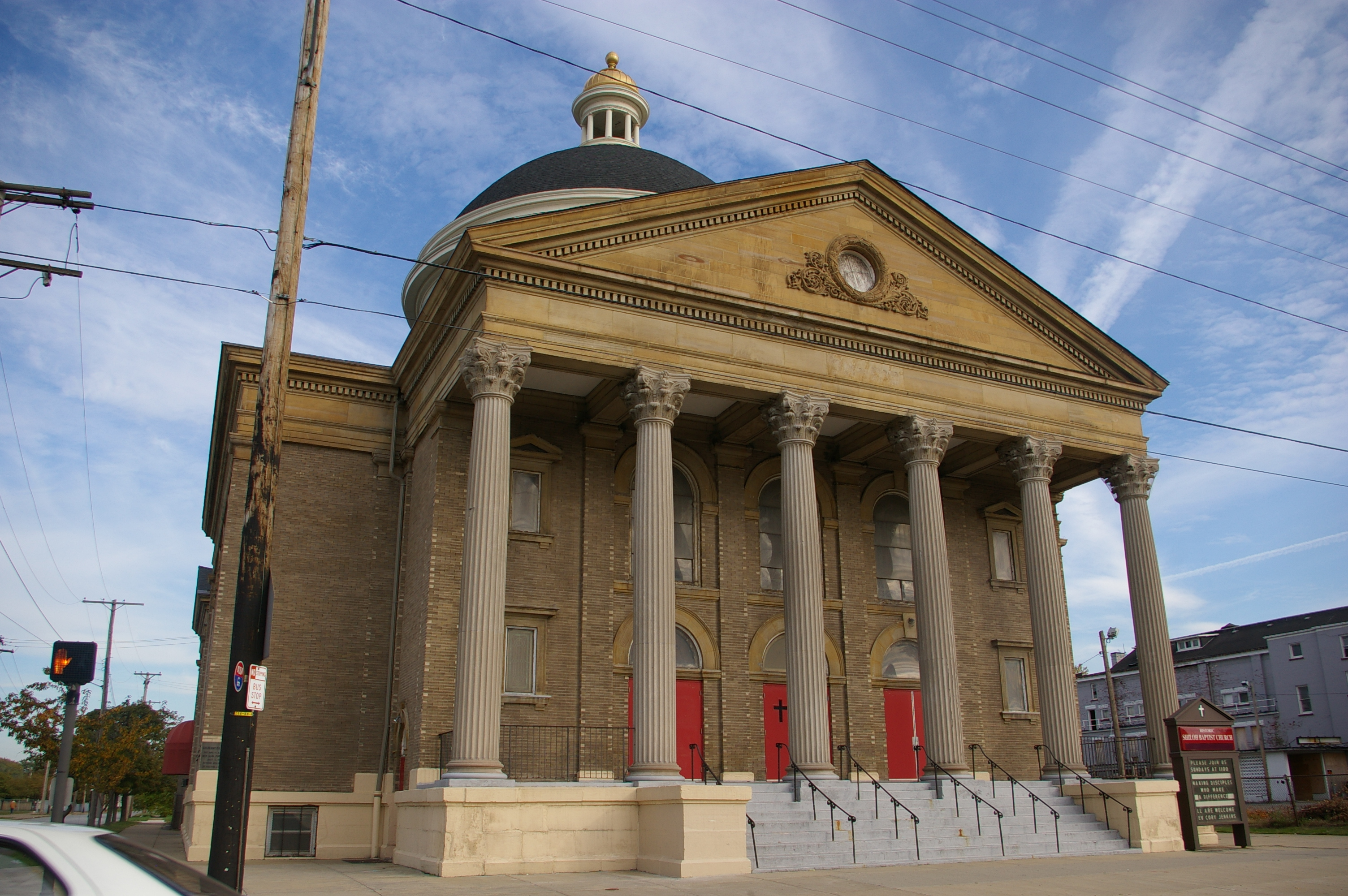 A view of the Shiloh Baptist Church at 5500 Scoville Avenue, in Cleveland, Ohio. The structure was built in 1905 as Temple B'nai Jeshurun. It was designed by Harry Cone, architect. It is listed on the National Register of Historic Places.